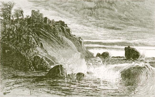 Ruins of Ashkelon, from the North. Showing fortifications at the north-west corner of the city. The western wall was about twelve hundred feet in length and followed the lines of the edge of the cliffs which are from thirty to seventy feet in height. The conquest of Ascalon by Rameses II is recorded on the walls of the Temple of Karnac.